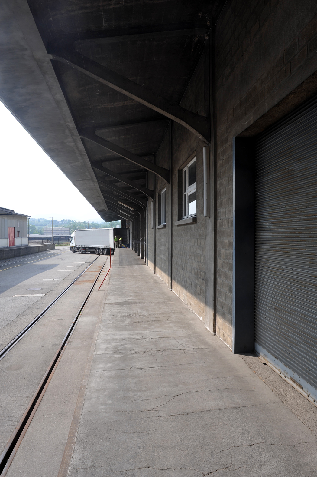 Warehouses of the «Magazzini Generali» in Chiasso by Robert Maillart, built 1925; Ticino, Switzerland. Ramp along the main building and the open warehouse, with concrete roof structure.